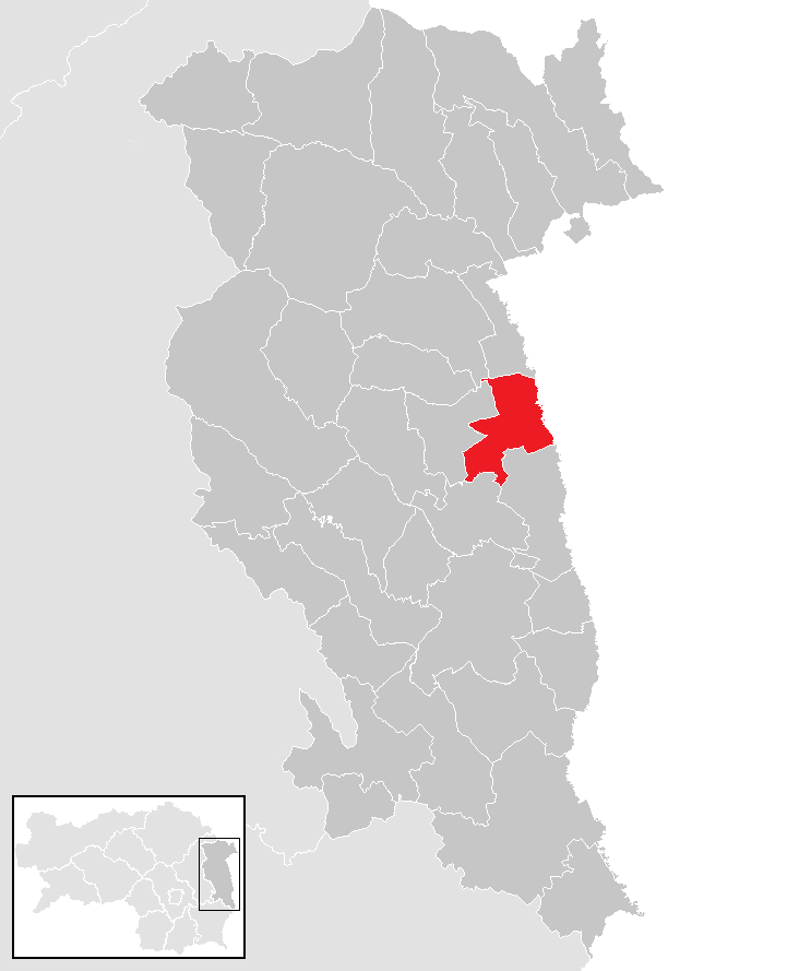 district Hartberg-Fürstenfeld